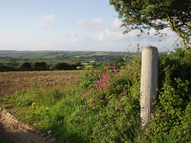 Fields near Halamanning. Harvested cauliflower fields. Looking down towards Relubbus and the Hayle River valley.